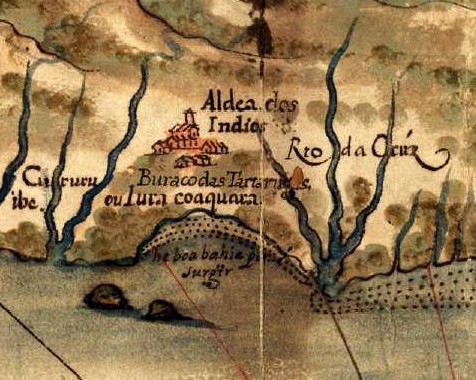 Jericoacora-1629